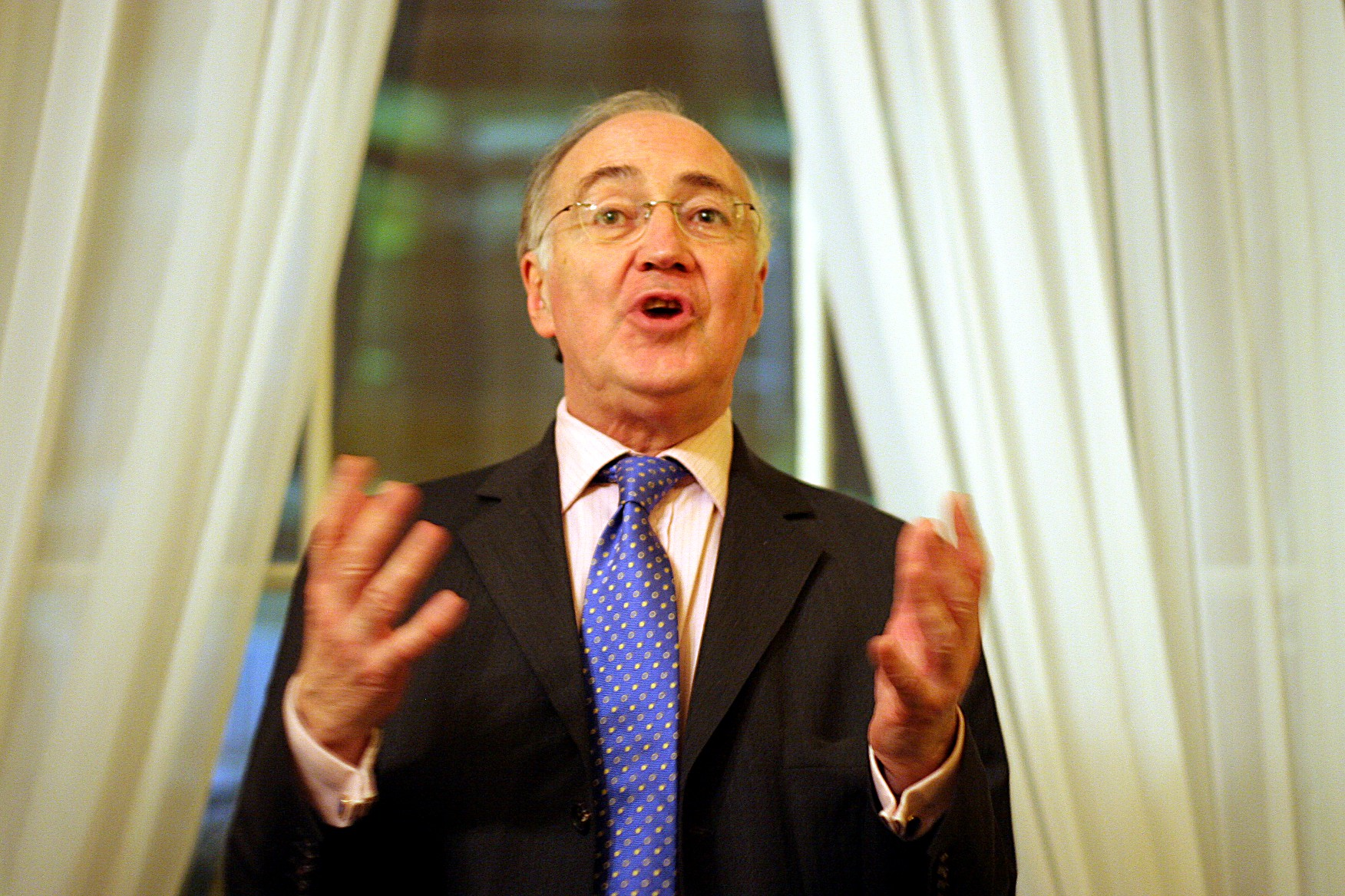 Michael Howard giving a speech. (1752x1168 px, 604,628 bytes)